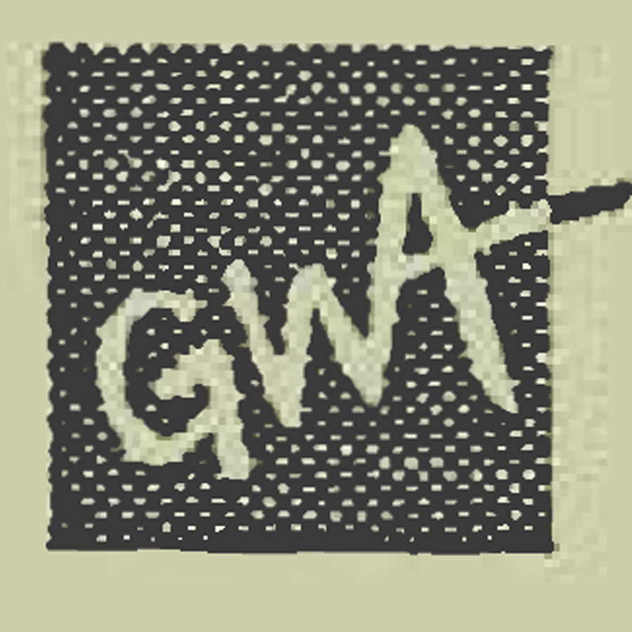 This is the logo of the Gay Women's Alternative, INC Washingon, D.C. (1981-1993) created by the board members of the GWA and distributed for the LGBT community in DC. The logo was present on all flyers and ads.